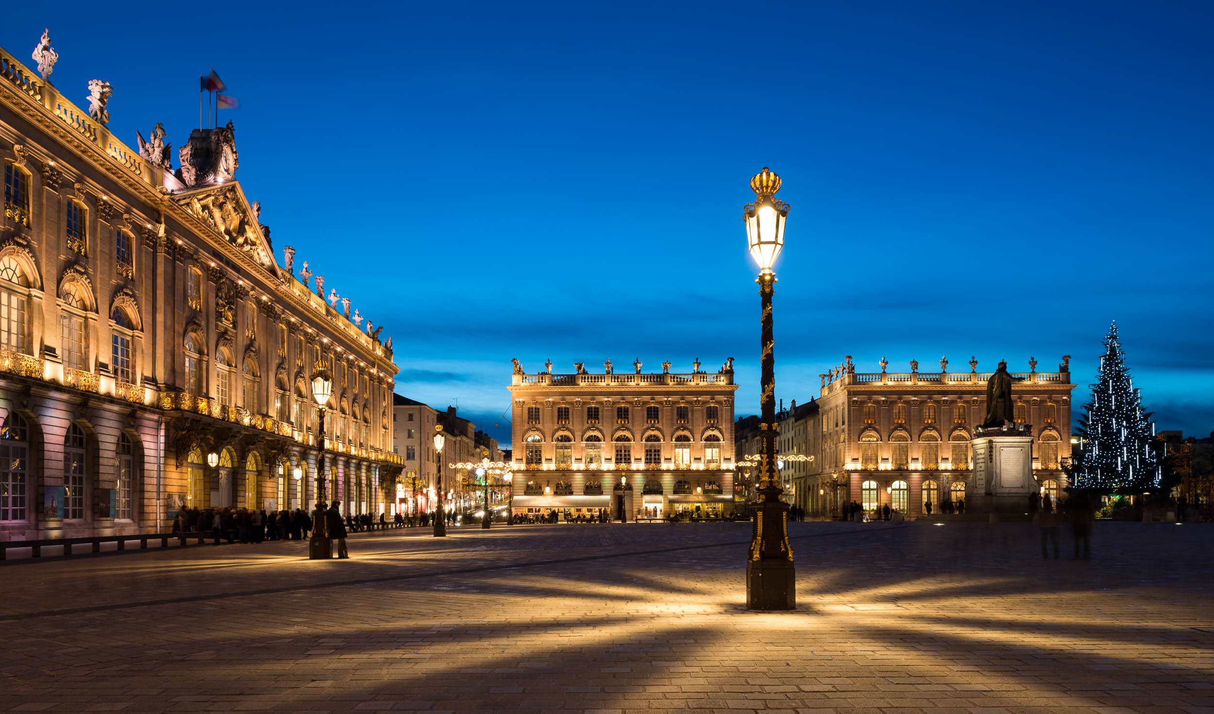 Night view of Place Stanislas in Nancy